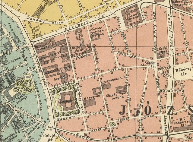 Map of Palotanegyed